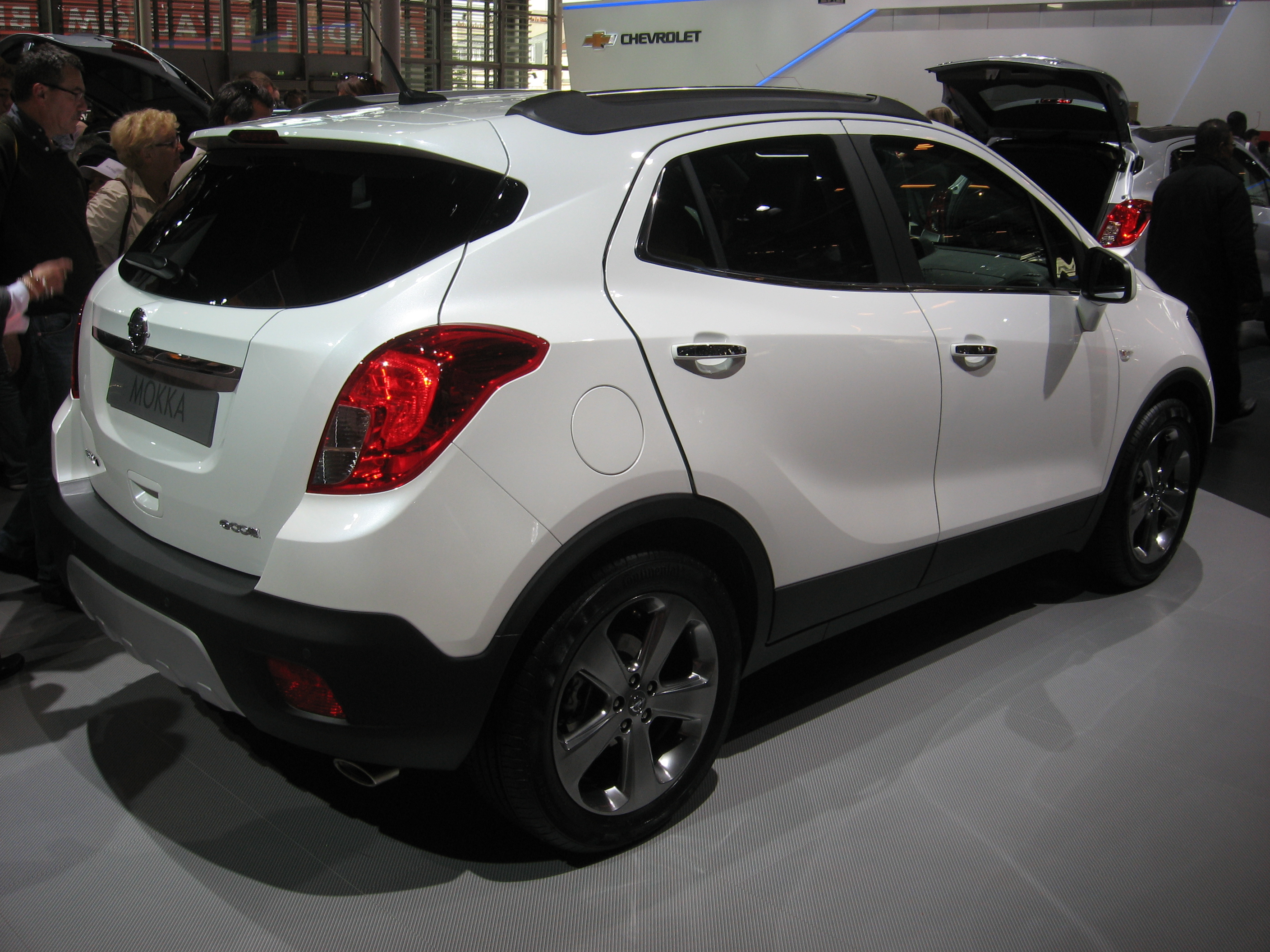 Subject: Opel Mokka Author: Luc106 Date:September 29th, 2012 Event: Salon de l'Automobile 2012 Place/Country: Parc des Expositions, Porte de Versailles, Paris (France) I release all rights in the public domain.